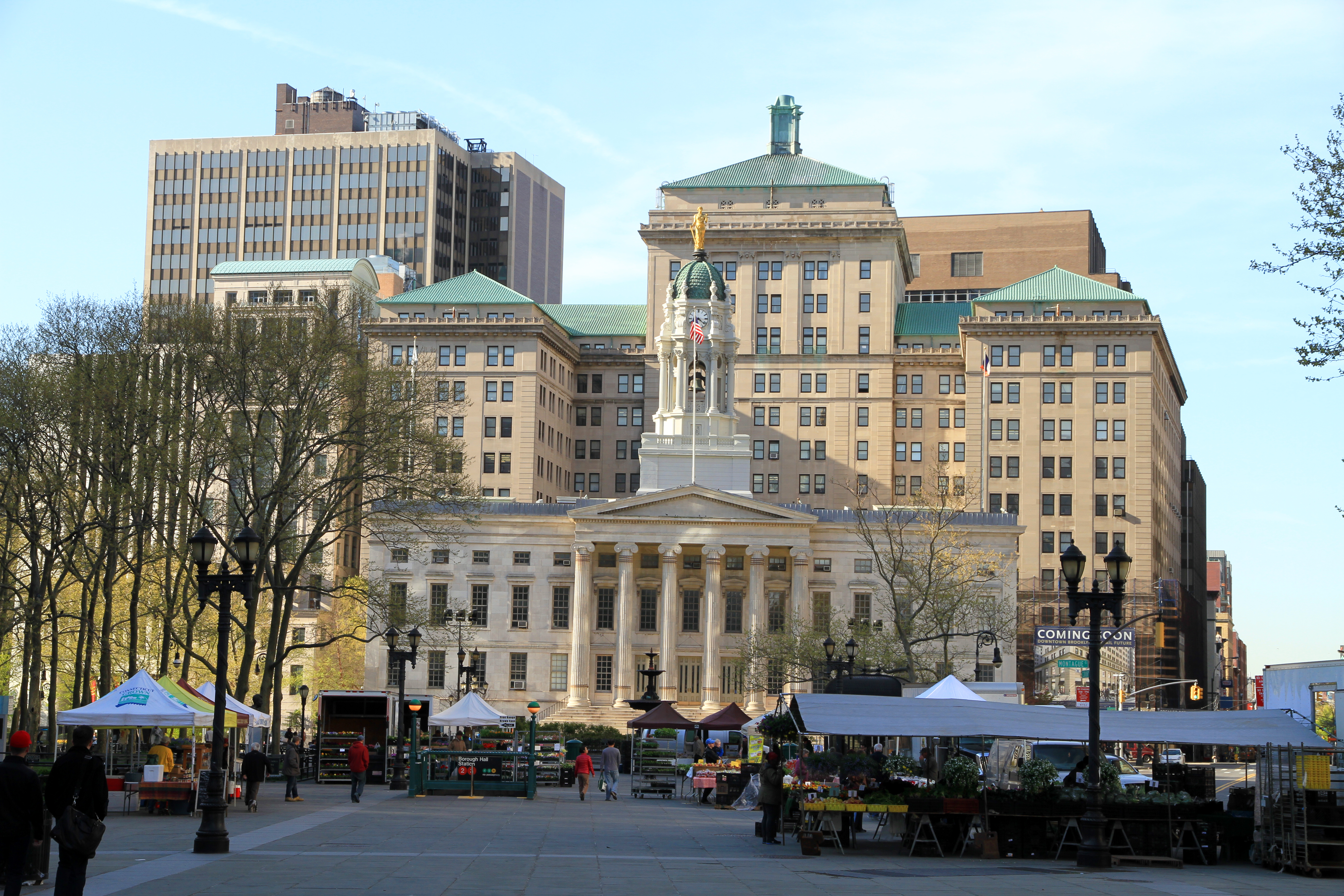 Brooklyn Columbus Park